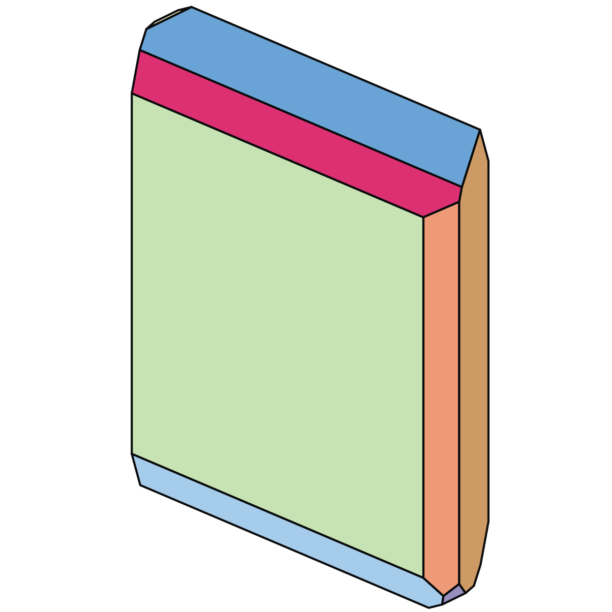 Drawing of a henmilite crystal with nine forms; reference: Isao Kusachi, New Data on Mineralogical Properties of Henmilite, Journal of the Mineralogical Society of Japan Band 21 (1992), page 128